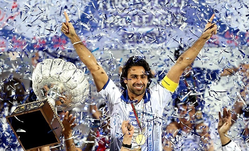 Farhad Majidi celebrating IPL title with Esteghlal